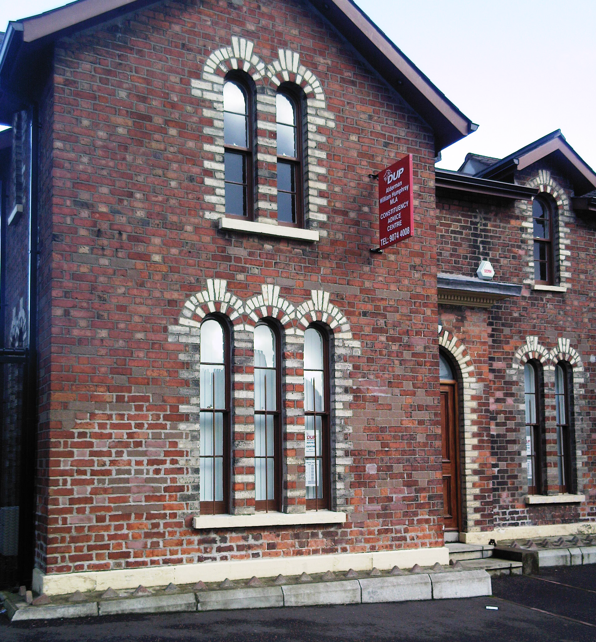 Democratic Unionist Party regional office, Woodvale Road, Belfast